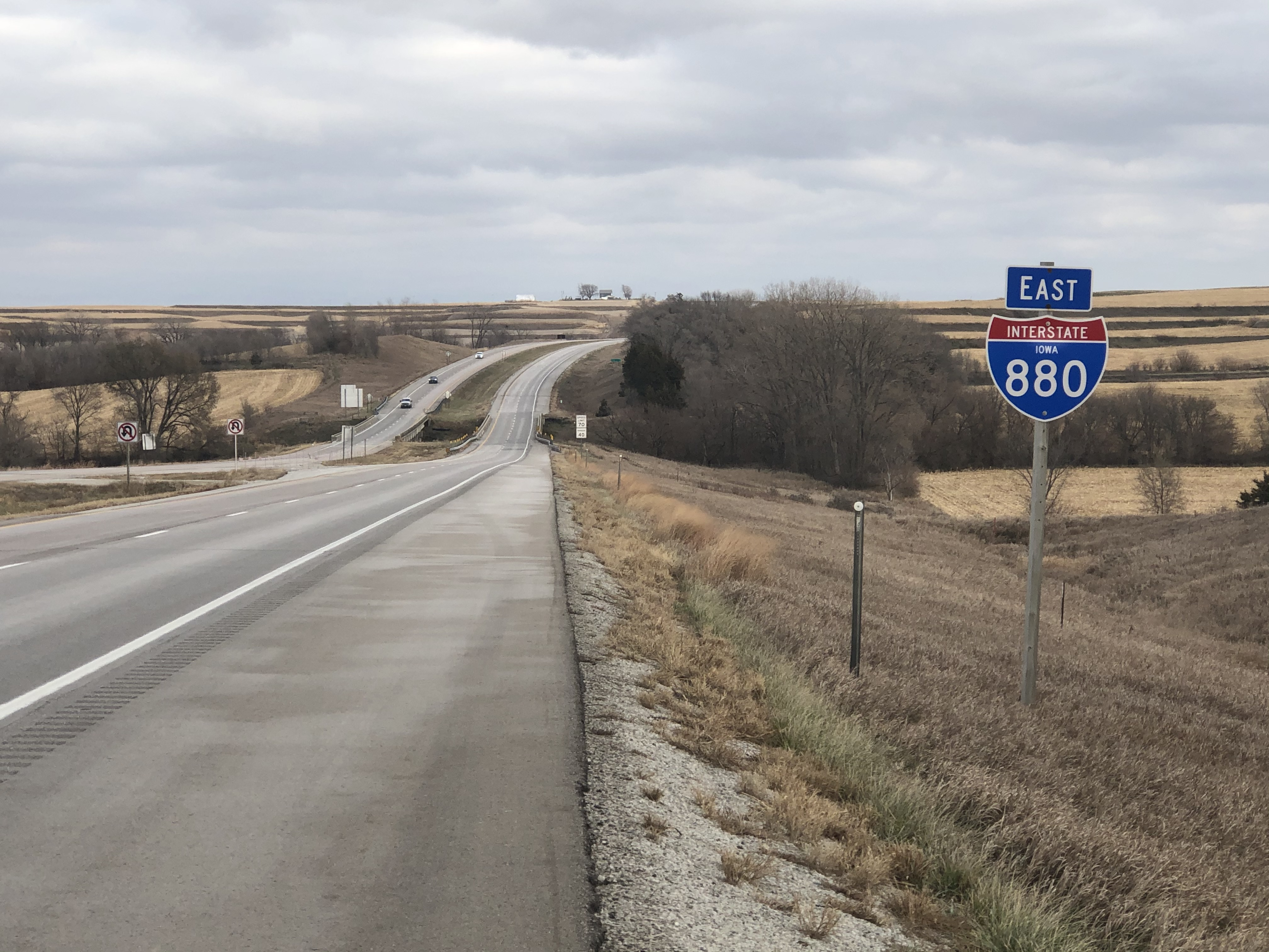 New I-880 reassurance sign entering the highway from the Logan-Beebetown interchange (November 2019)